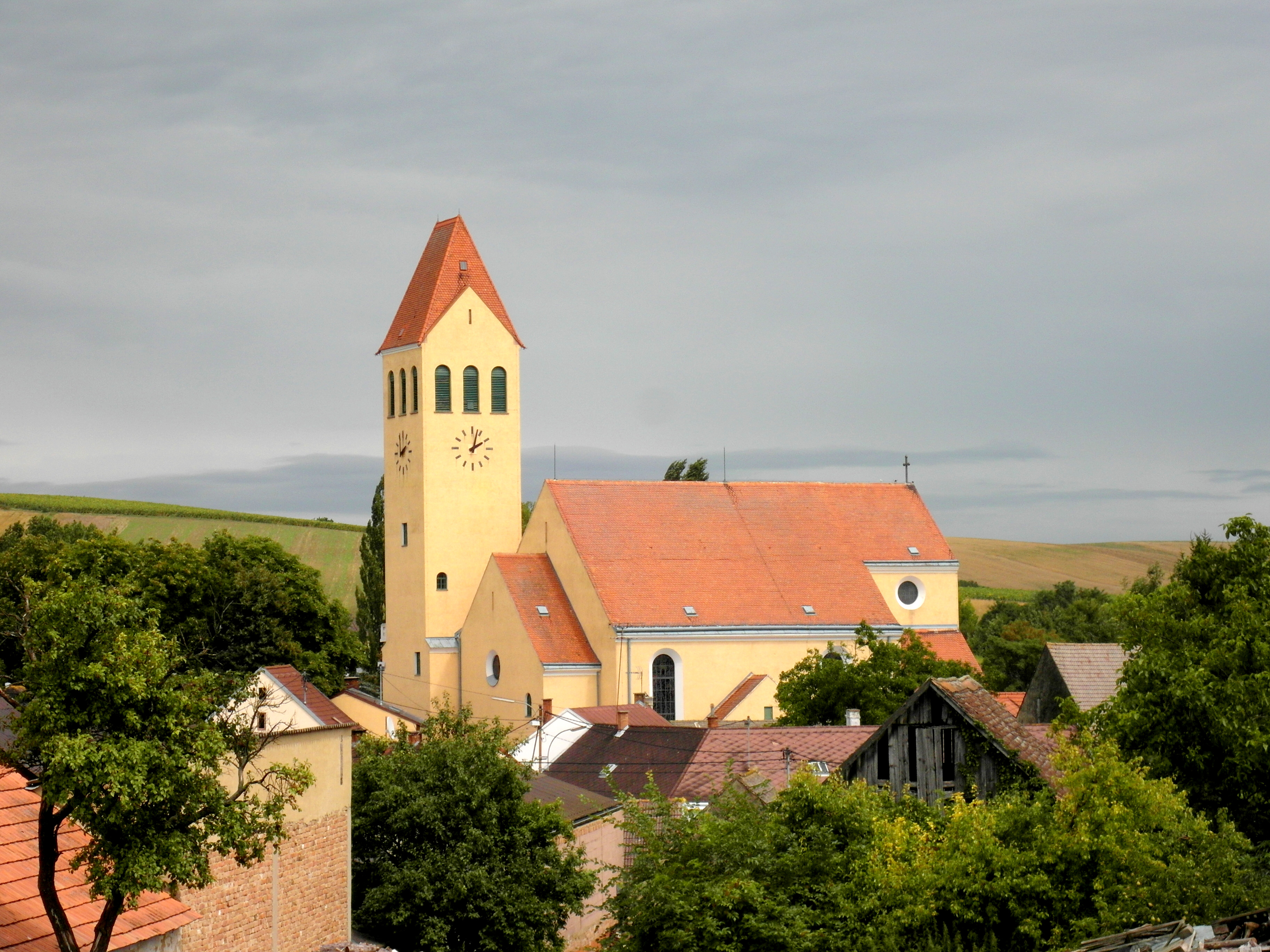 Pfarrkirche Eibesthal